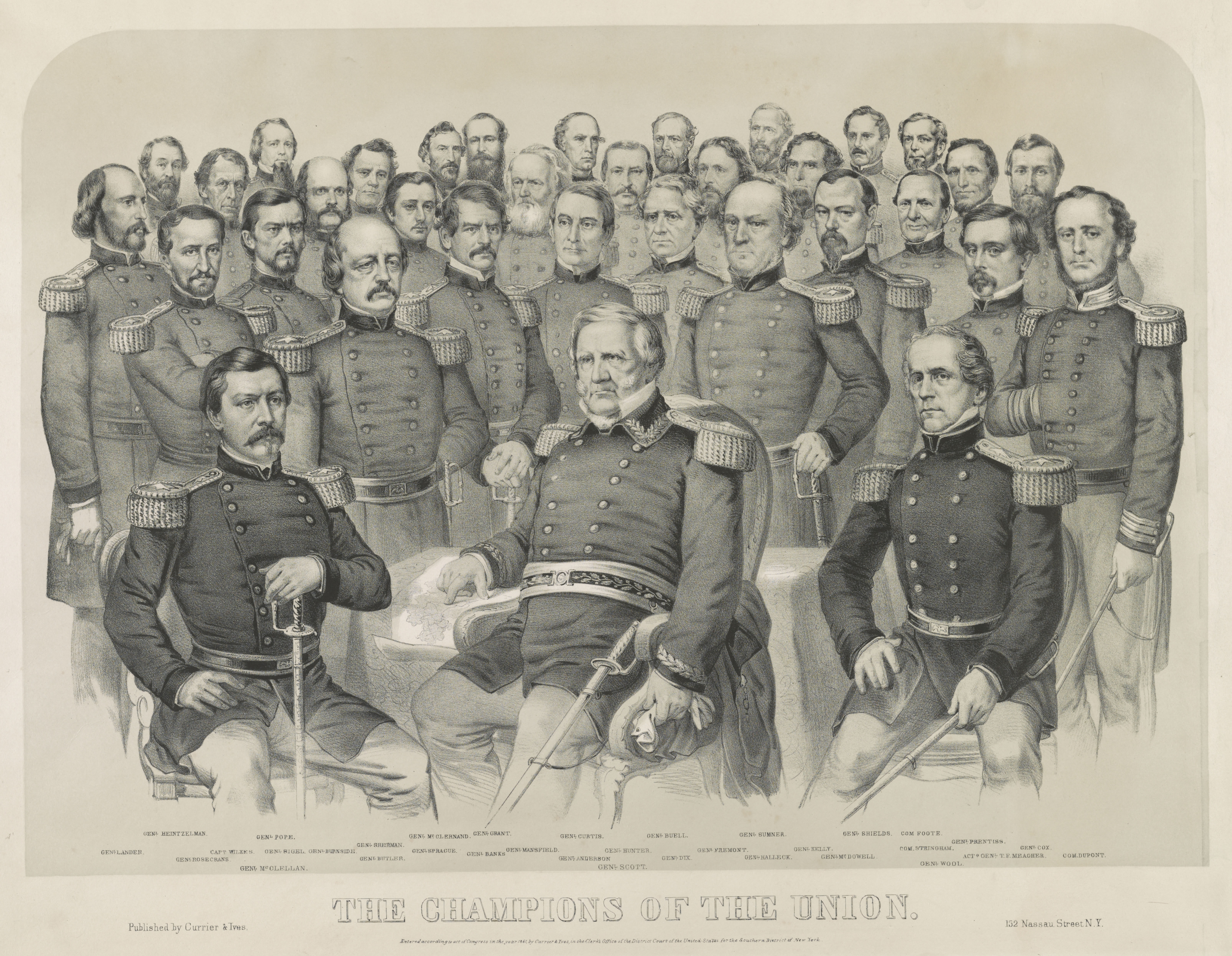 The champions of the Union. Print is a group portrait of Union Army generals and Navy commanders; caption identifies each man: Genl. Heintzelman, Genl. Pope, Genl. Sherman [Thomas W.], Genl. McClernand, Genl. Grant, Genl. Curtis, , Genl. Buell, Genl. Sumner, Genl. Shields, Com. Foote, Genl. Lander, Capt. Wilkes, Genl. Sigel, Genl. Burnside, Genl. Sprague, Genl. Mansfield, Genl. Hunter, Genl. Fremont, Genl. Kelly, Com. Stringham, Genl. Prentiss, Genl. Cox, Genl. Rosecrans, Genl. Butler, Genl. Banks, Genl. Anderson, Genl. Dix, Genl. Halleck, Genl. McDowell, Act. Genl. T. F. Meagher, Com. Dupont, Genl. McClellan, Genl. Scott, Genl. Wool. Lithograph. Cropped from original.